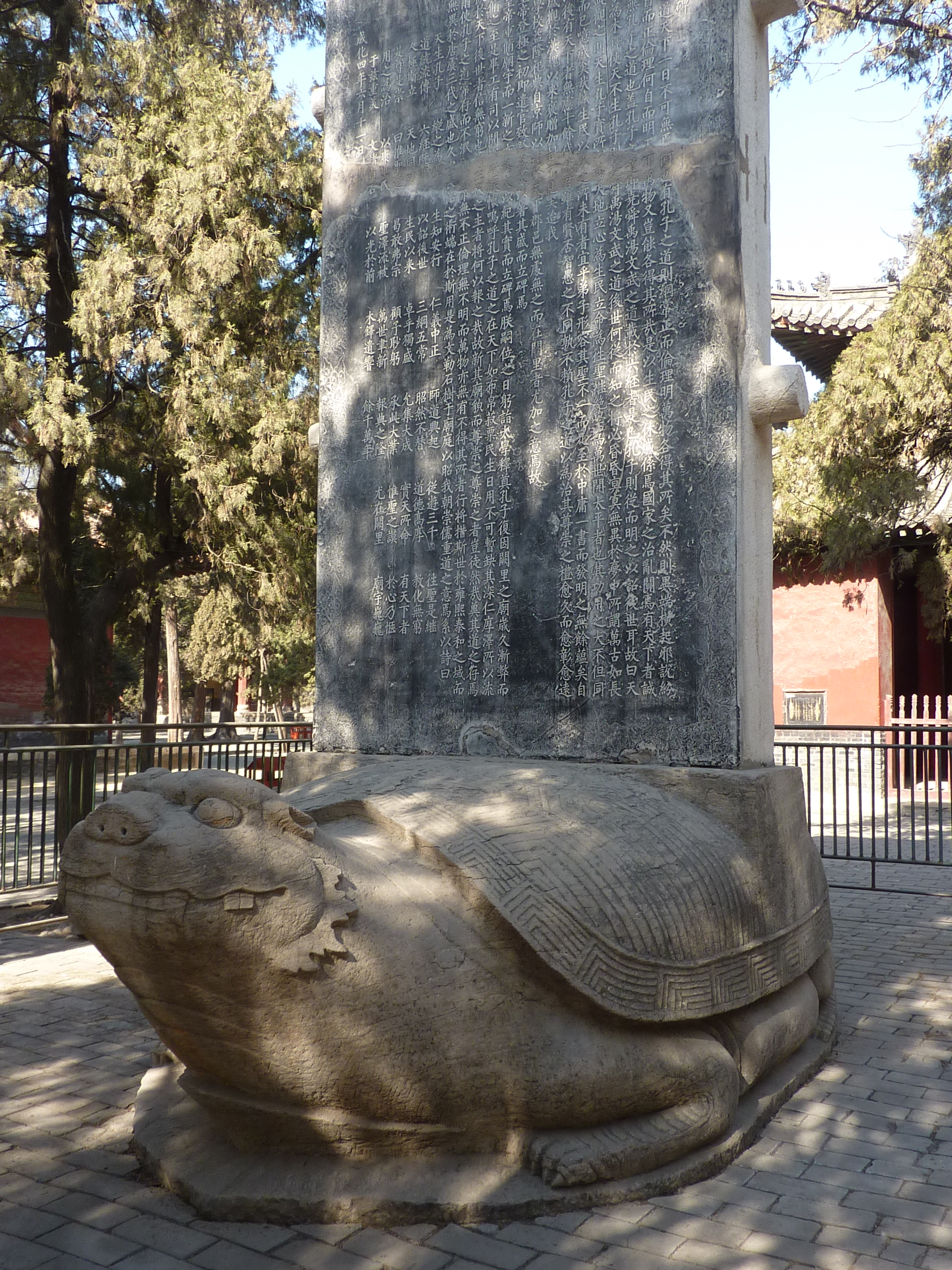 A tortoise-borne stele commemorating renovation of the Temple of Confucius, erected in Year 4 of Chenghua era (AD 1468).